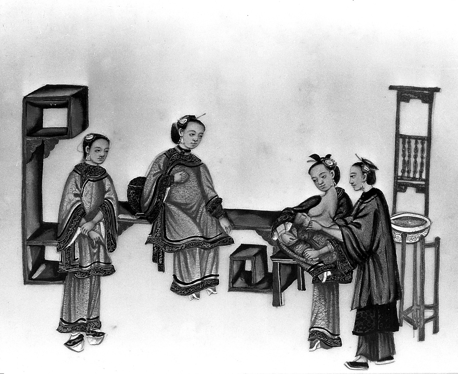 A mother feeding her new-born child at breast. Asian Collection